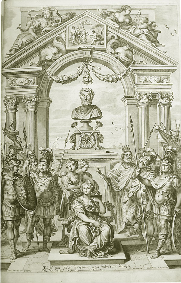 Engraved frontispiece of a 1660 edition of Homer's The Iliad translated into English by John Ogilby.